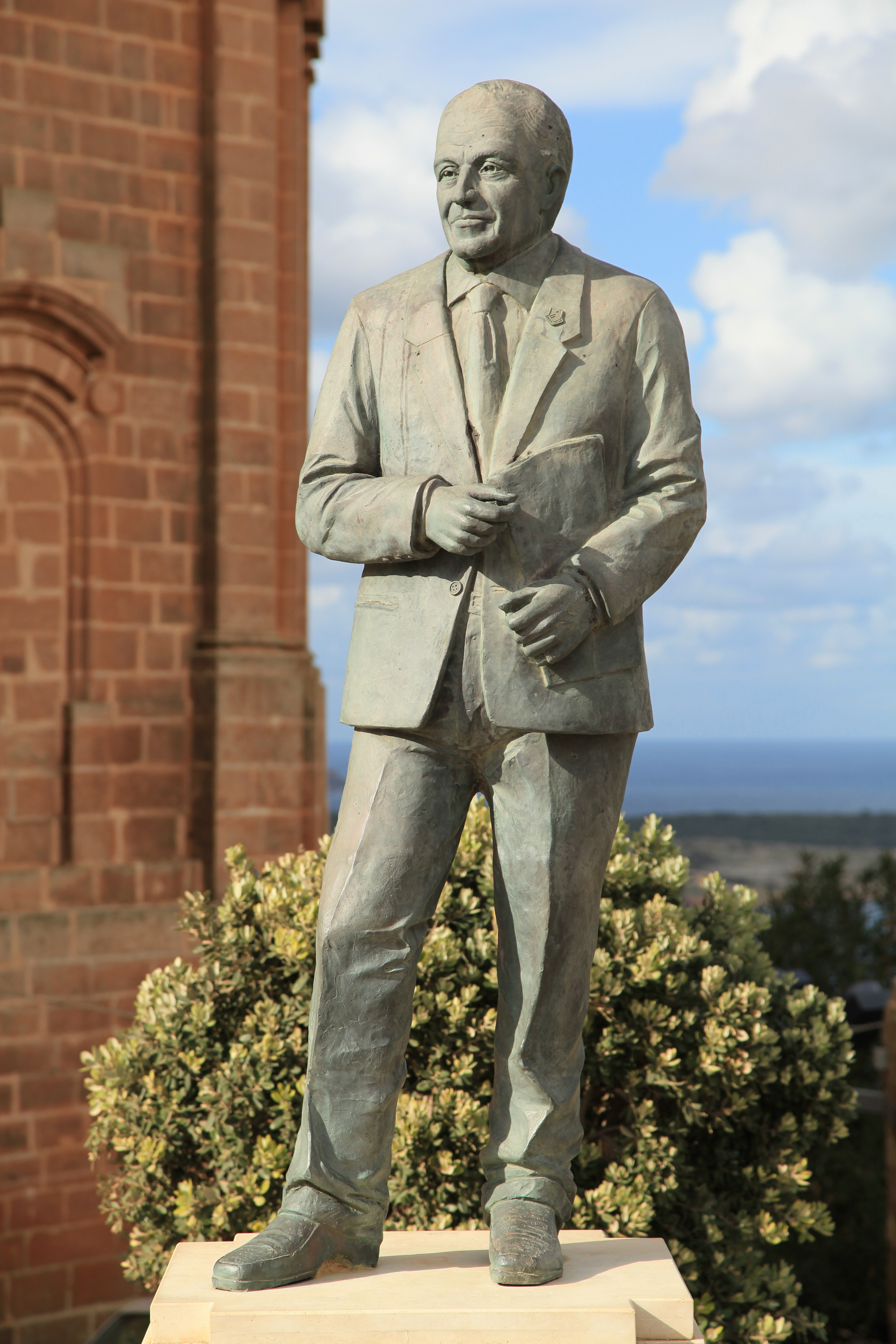 Memorial to Carm Lino Spiteri, Misraħ il-Parroċċa in Mellieħa